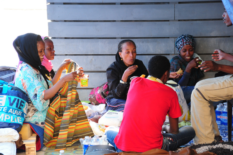 Refugee camp at the Jardins d'Eole, Paris, France.